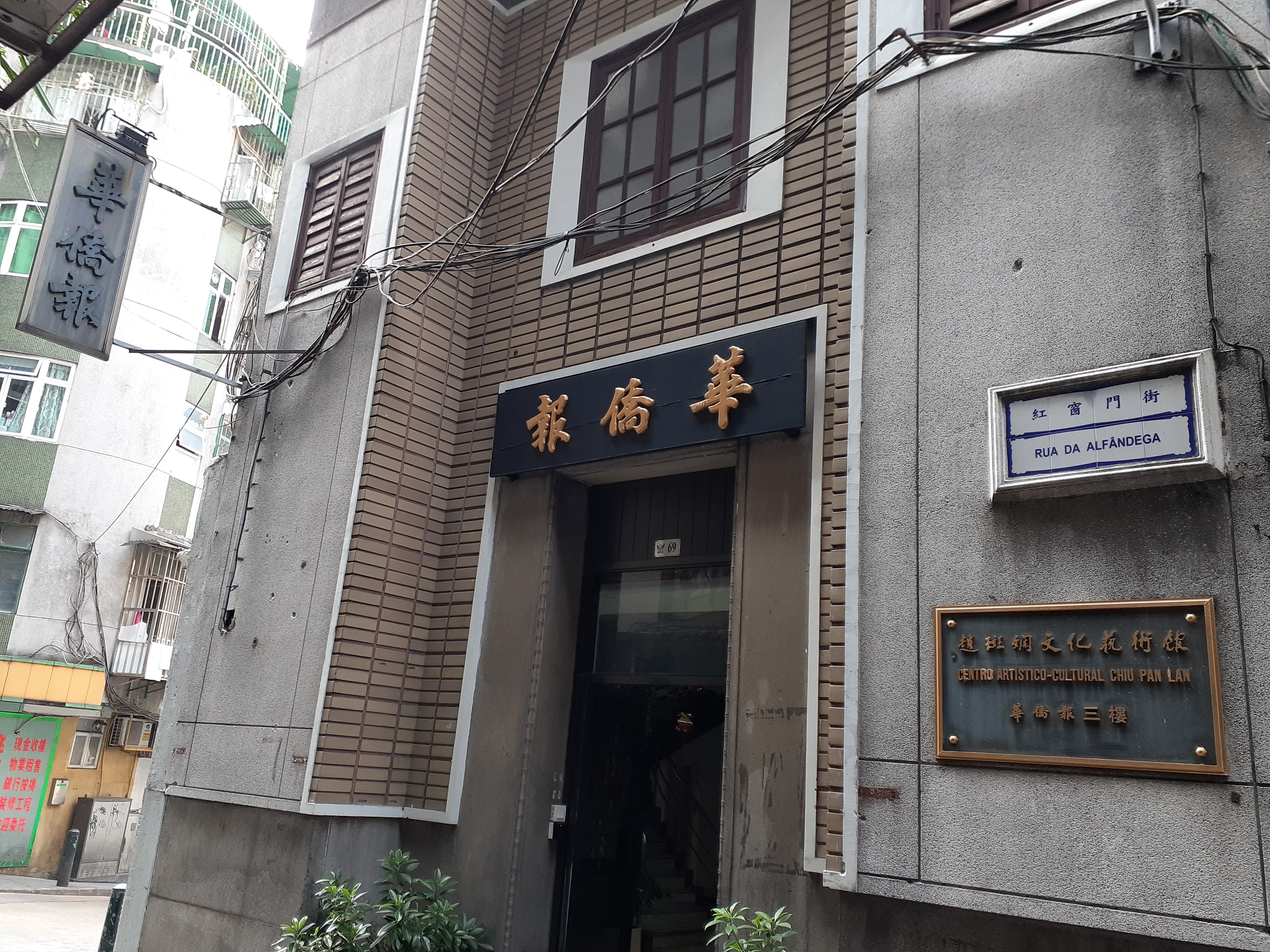 MC 澳門 Macau 澳門半島 Macao Peninsula 紅窗門街 Rua da Alfândega in November 2019